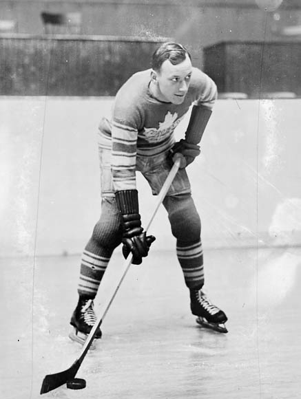 Ace Bailey